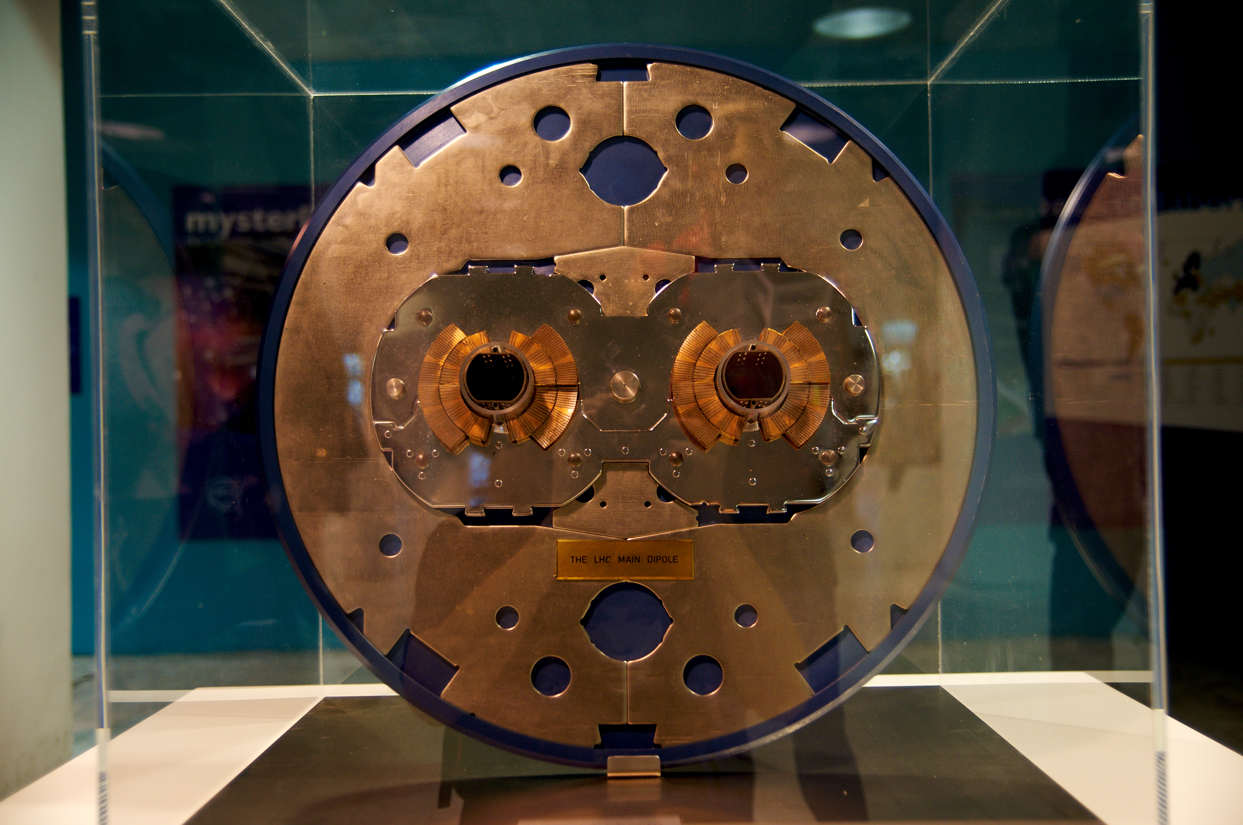 An LHC dipole magnet